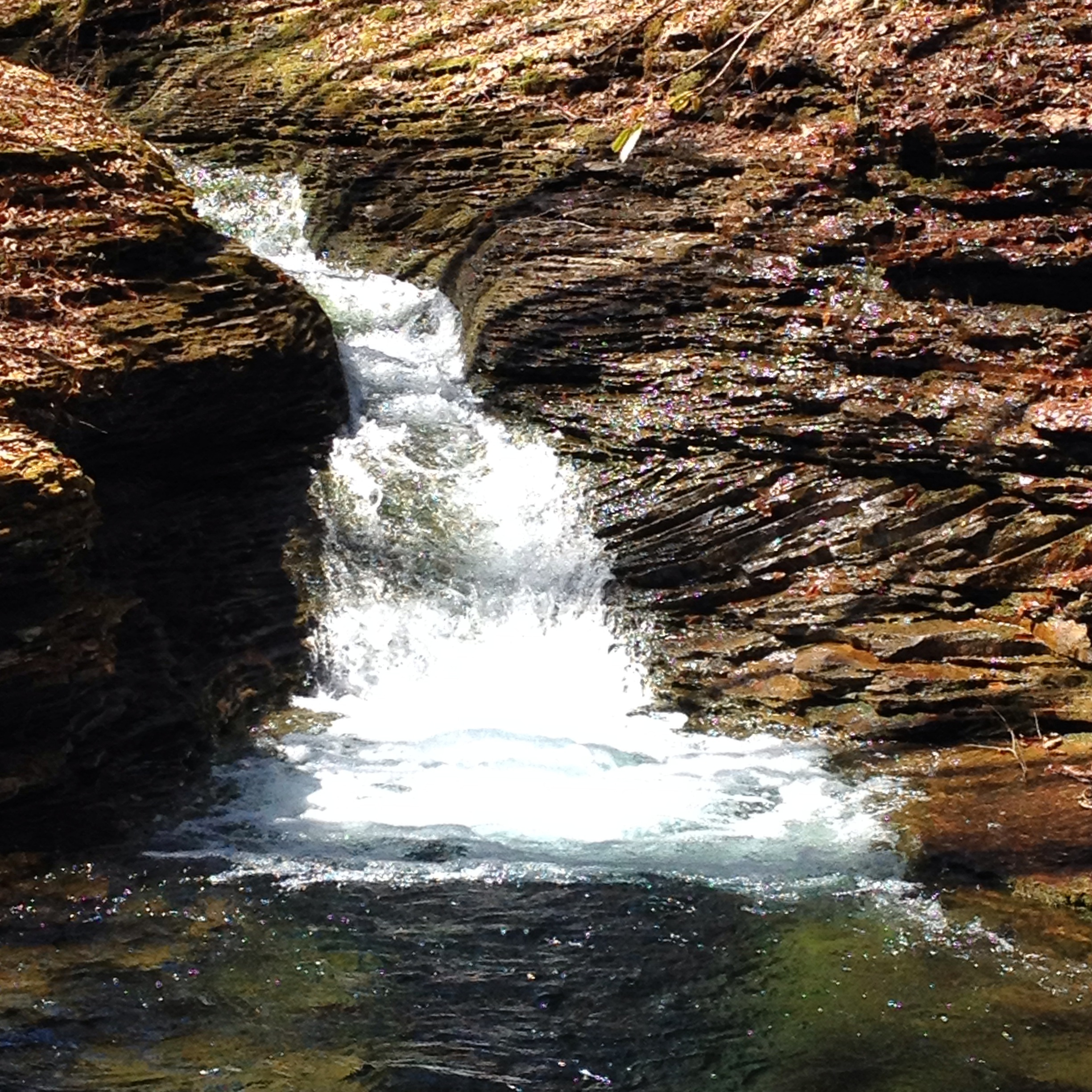 MISC